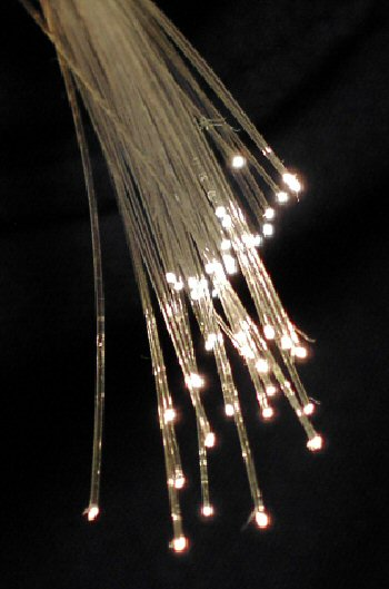 Fibre optic strands